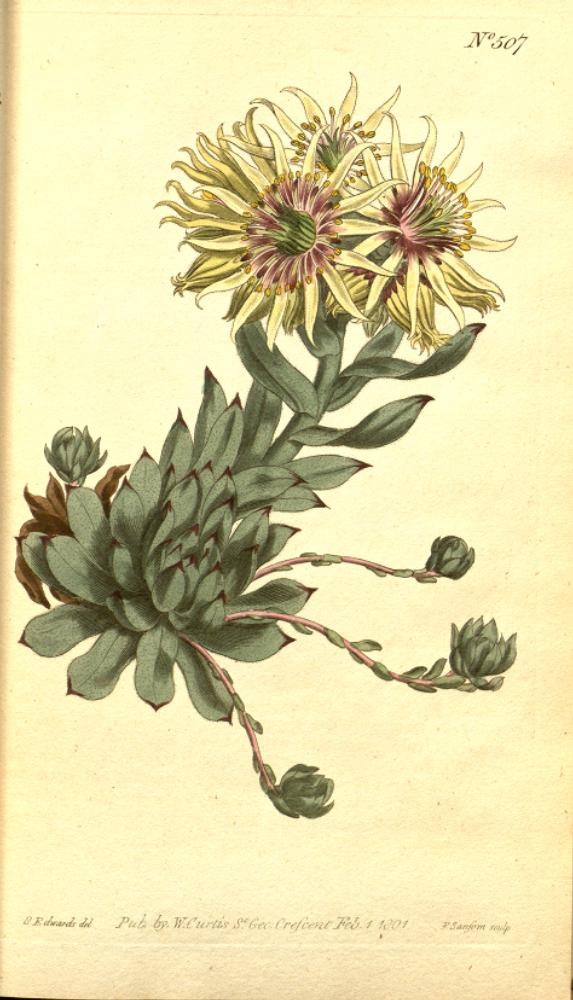 Illustration of Sempervivum globiferum